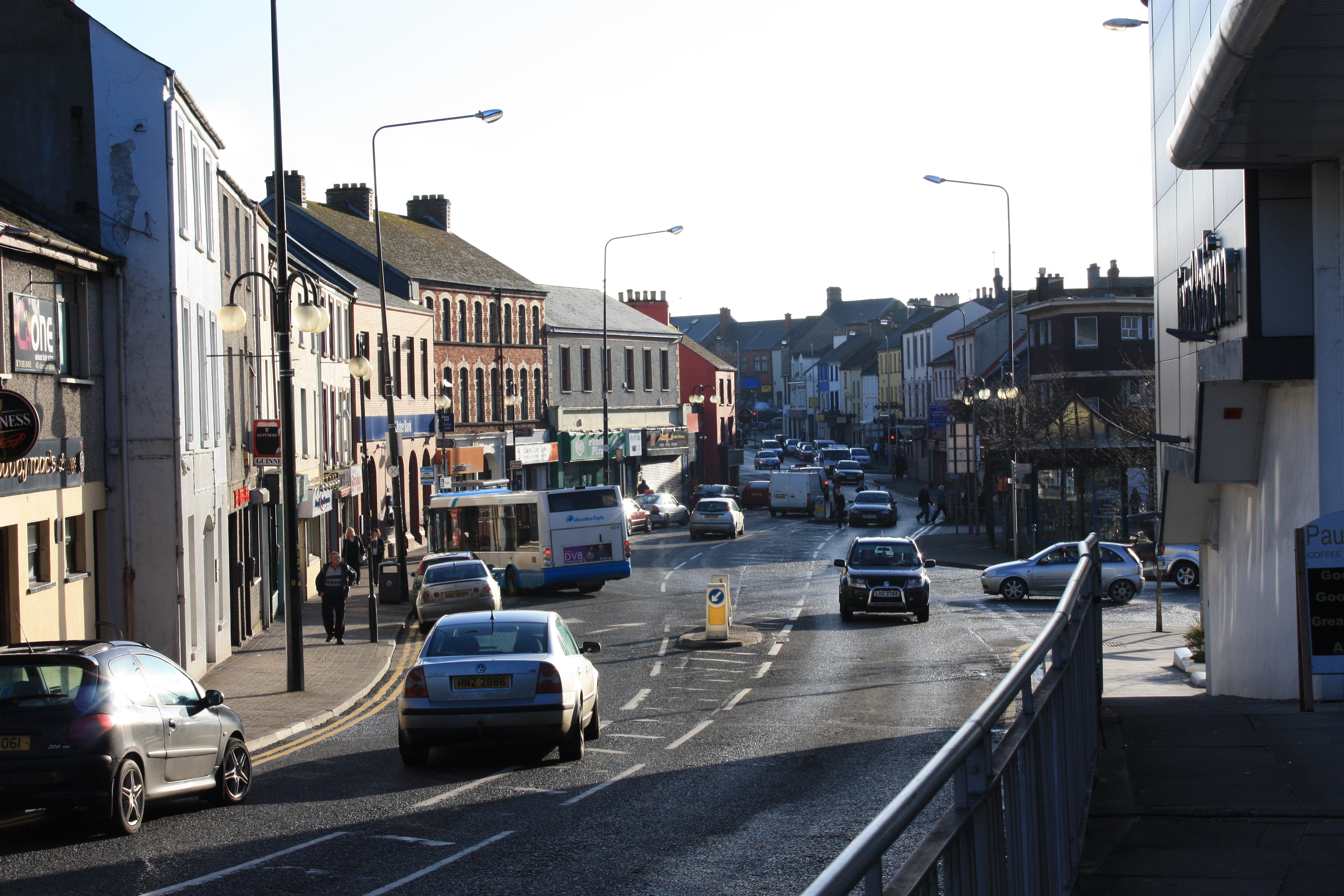 Abercorn Square, Strabane, County Tyrone, Northern Ireland, January 2010